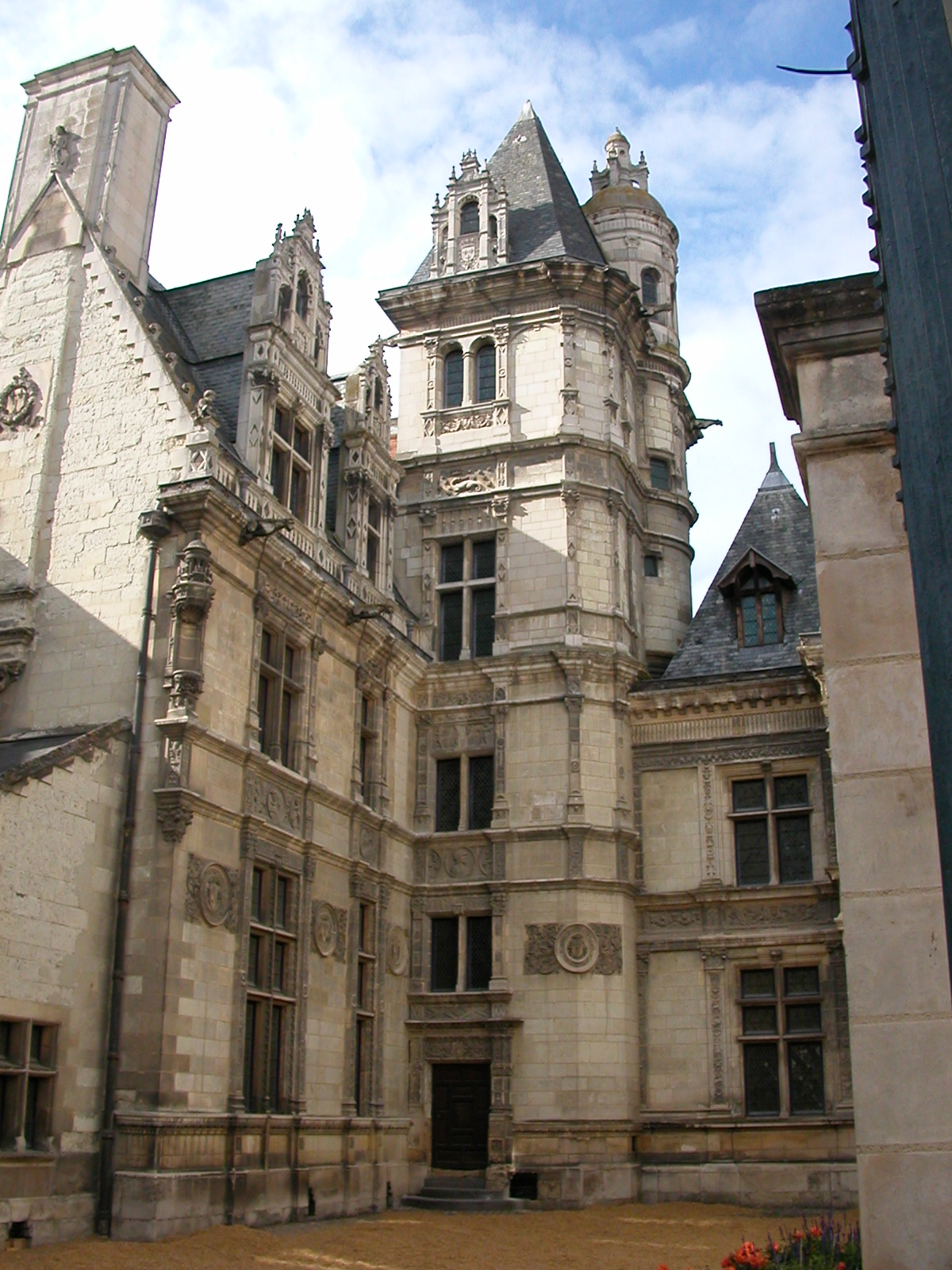 Hôtel Pincé in Angers, built by Jean de l'Espine (1505-1576).